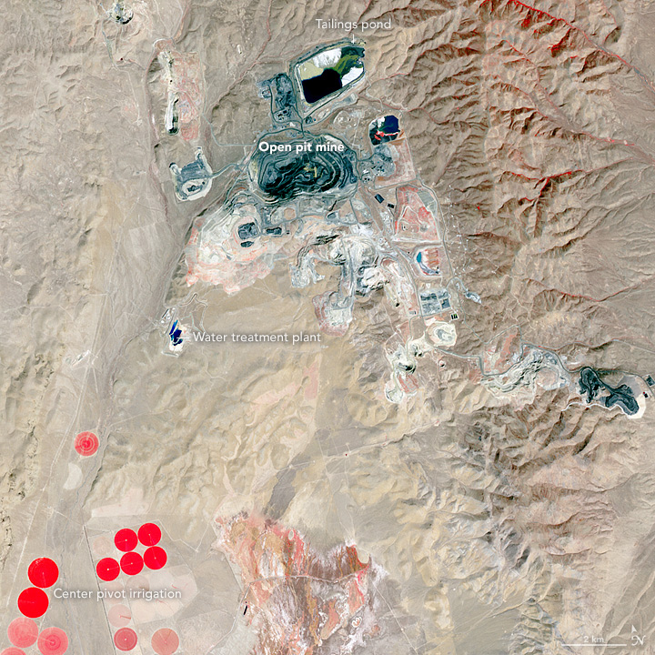 Goldstrike mine in northeastern Nevada is one of the largest gold mines in the world. In 2016, the mine produced 1.1 million ounces of gold. Only two other operations—the Grasberg mine in Indonesia and the Muruntau mine in Uzbekistan—produced more. On September 25, 2016, the Advanced Spaceborne Thermal Emission and Reflection Radiometer (ASTER) on NASA’s Terra satellite captured this false-color image of the mine. Vegetation appears red. Water is dark blue. Bare rock appears in shades of brown and gray. The most noticeable feature is the Betze-Post open-pit mine, which is managed by Barrick Gold Corporation and has a depth of more than 500 meters (1,600 feet). Smaller open-pit mines operated by other companies are also visible northwest and southeast of the Betze-Post pit. Trucks transport ore from the bottom of the pit to nearby processing facilities, where gold is concentrated and extracted. On average, there is roughly 0.1 ounce of gold per ton of ore. Processing typically involves crushing ore into powder, exposing it to high temperatures and pressures, and leaching material out of liquid slurries. Leftover slurry is stored in tailing ponds, where solids settle out. In addition to its large open-pit mine, Goldstrike has two underground mines that also produce ore.